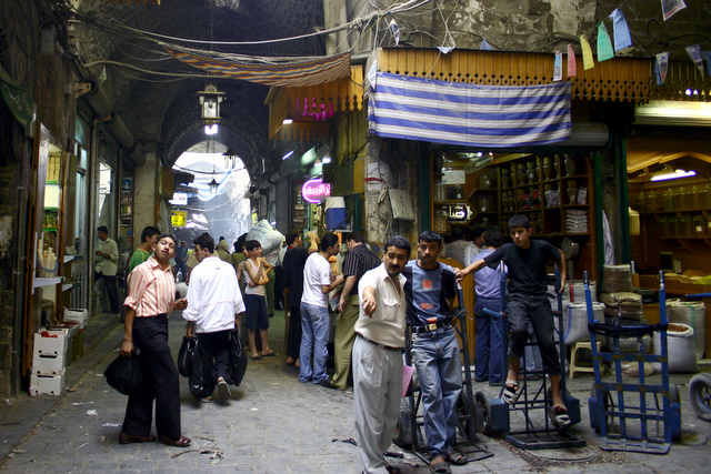 Old souk in Aleppo, Suq al-'atmah سوق العتمة